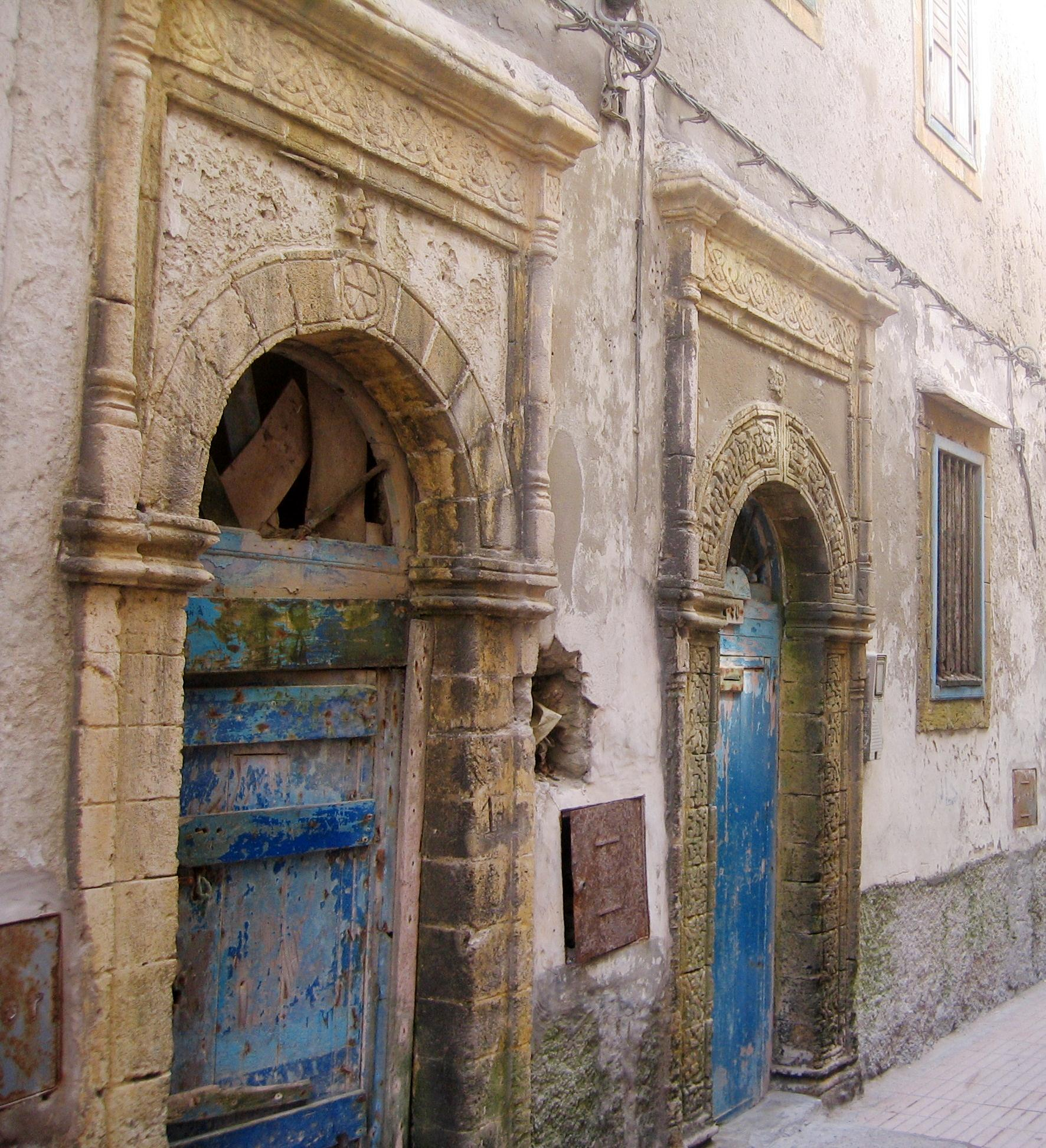 Old Jewish homes in the city of Essaouira, Morocco